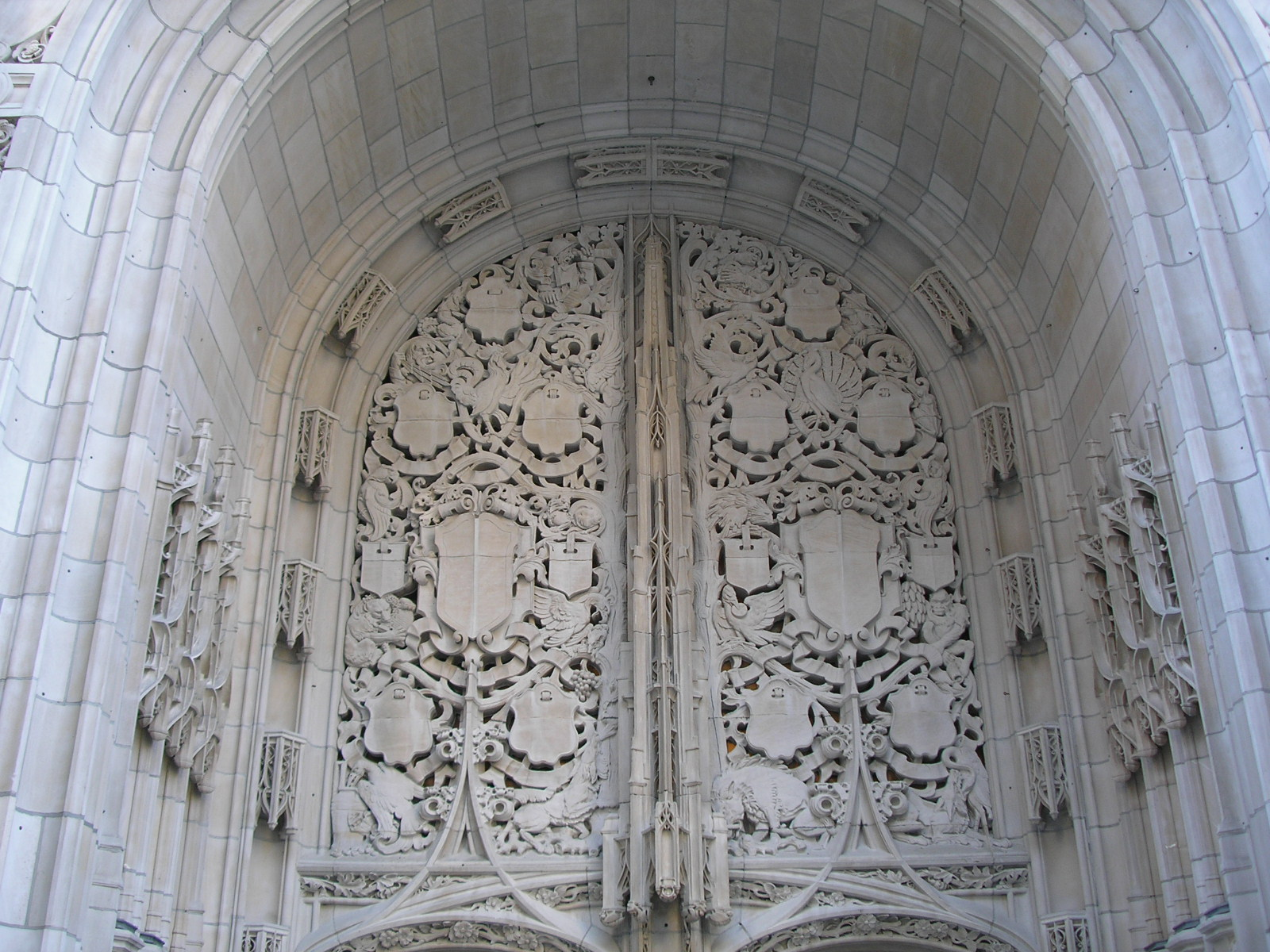 Architectural details on the Tribune Tower in Chicago.